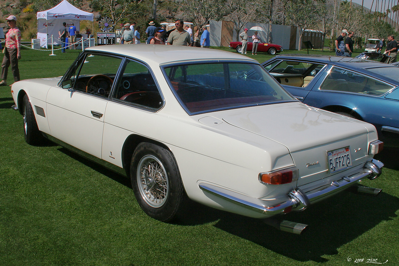 1968 Maserati Mexico. 2008 Desert Classic Concours d'Elegance Palm Springs.